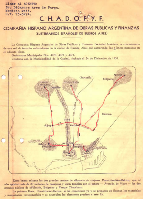 Map of the projected lines for the Buenos Aires Underground, done by "Compañía Argentina de Obras Públicas y Finanzas" - CHADOPYF.